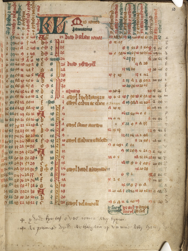 This part of the manuscript contains an assortment of texts about astrology and medicine. This combination was common in manuscripts all over Europe by the fifteenth century. To people in the Middle Ages there was close link between the time of year, the moon's seasons and other astrological factors and health and medical treatment, as they would affect the body's humours.